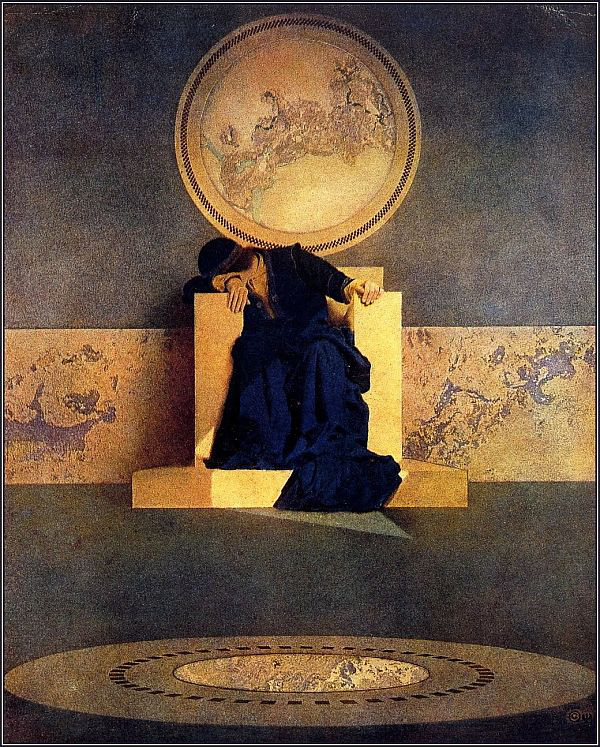 Picture of the young king of the Black Isles: "When he came to this part of his narrative, the young king could not restrain his tears."